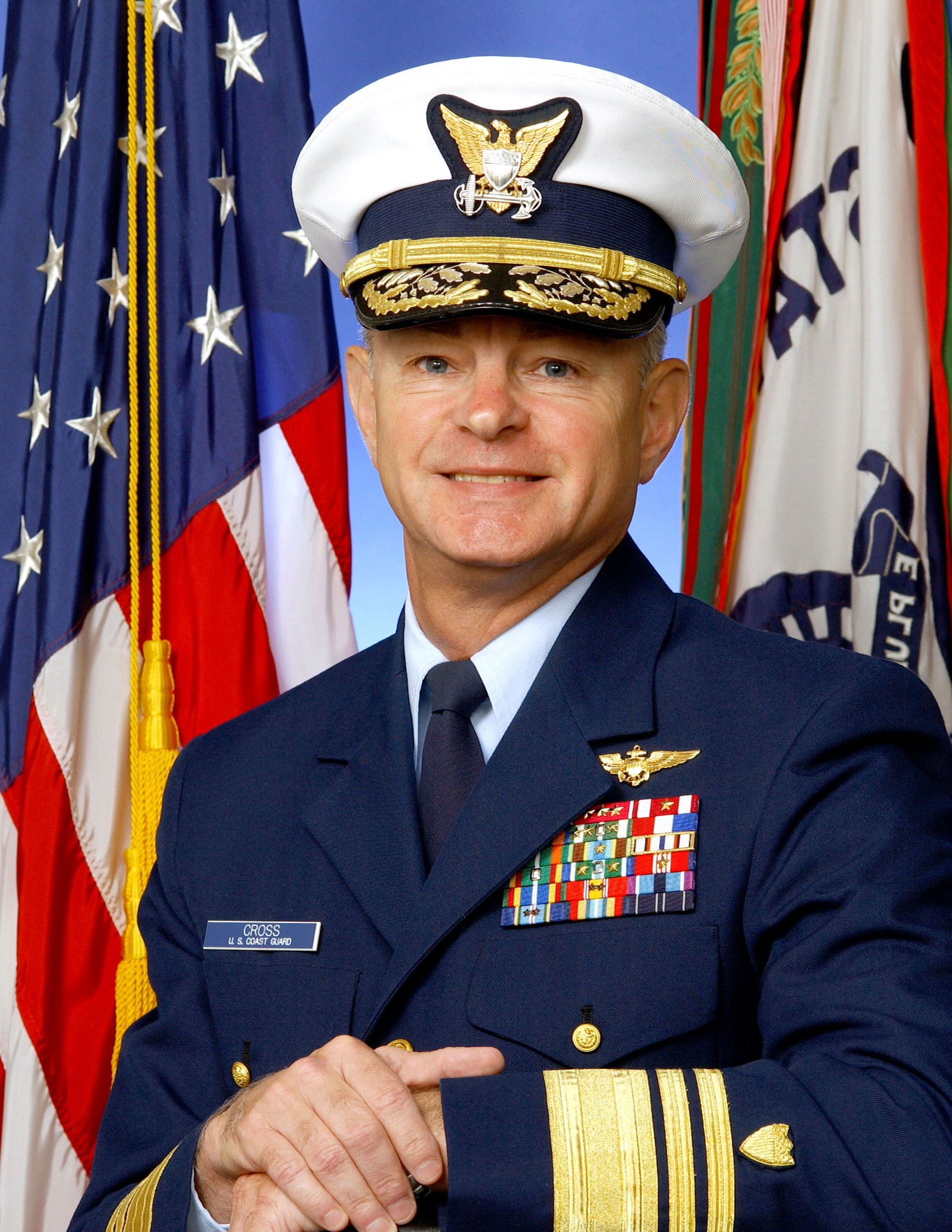 Vice Admiral Terry Cross, USCG